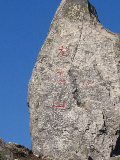 The Top of The Longwangshan